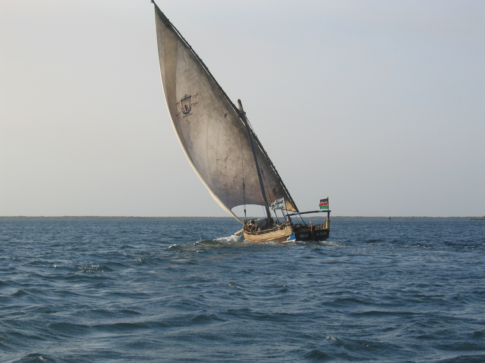 Dhow in Lamu, Kenya